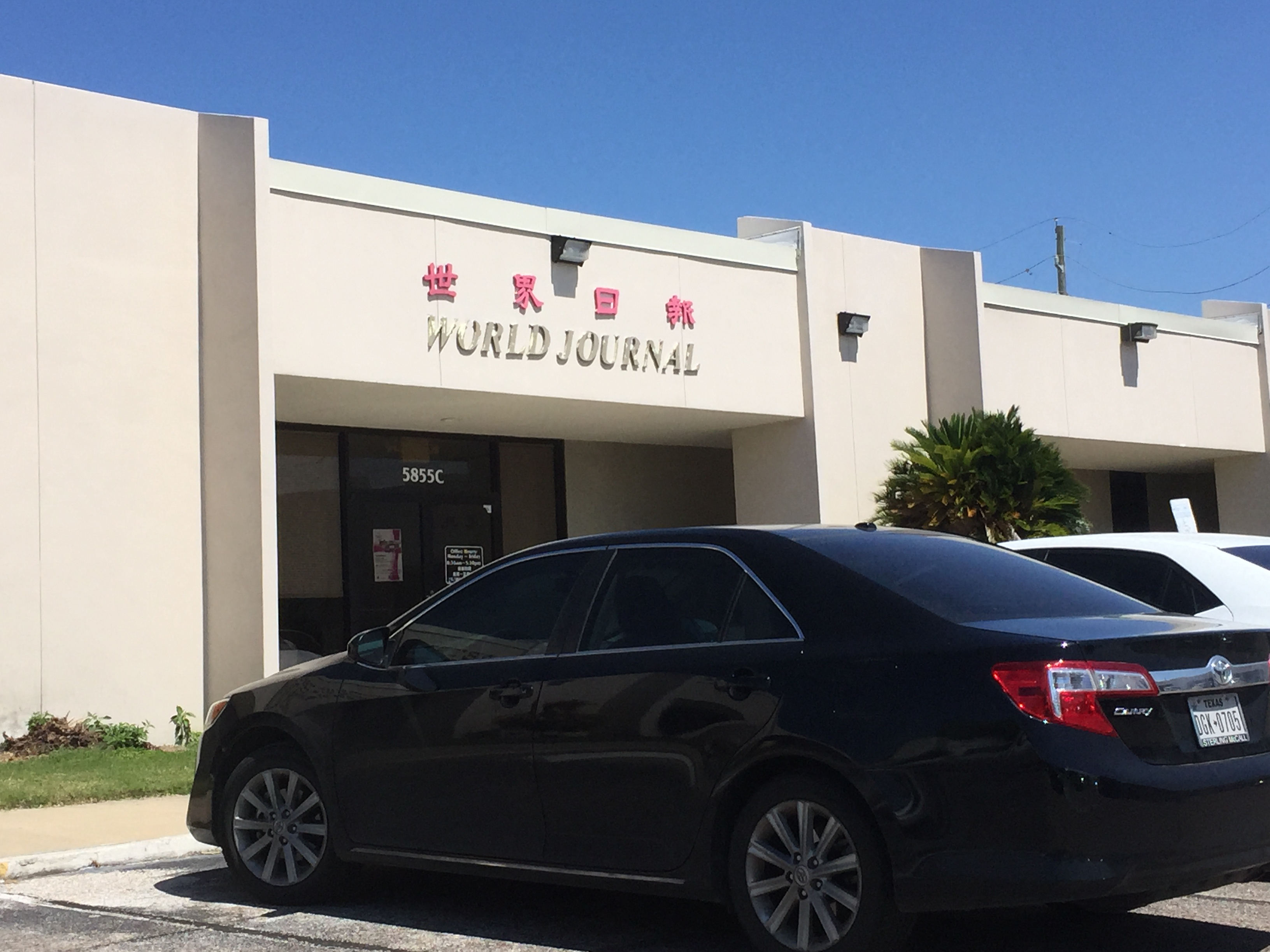 World Journal Texas offices - 5855 Sovereign Dr. Unit C Houston, TX 77036